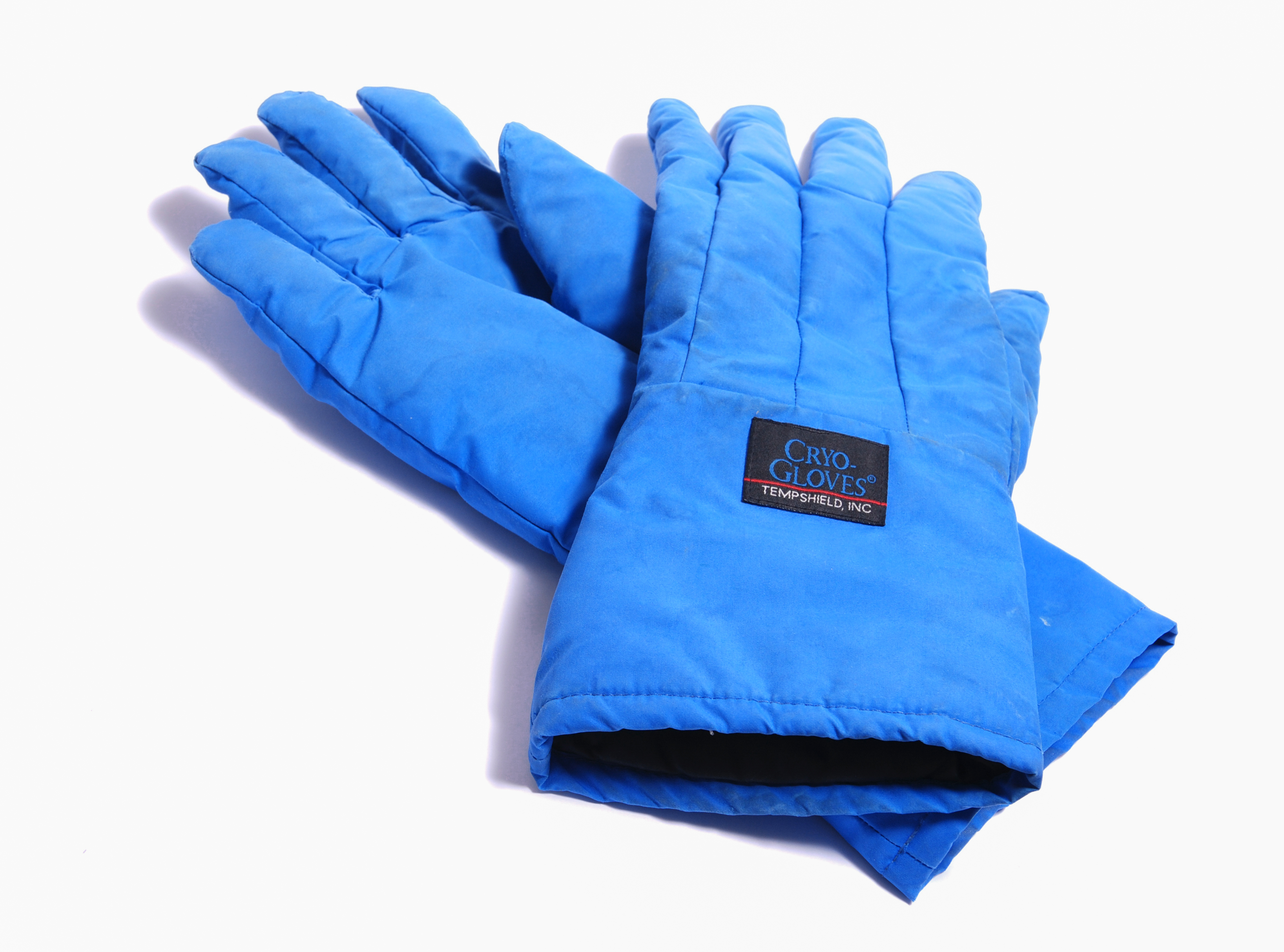 Laboratory gloves for cryoprotection